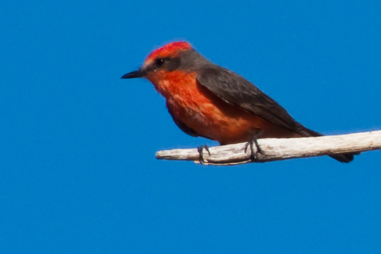 Vermilion Flycatcher (Pyrocephalus rubinus), a small passerine bird, summer resident (breeds) at the Zzyzx Desert Studies Center, Soda Springs, near Baker, CA. 18 April 2009. Panasonic FZ50 handheld.